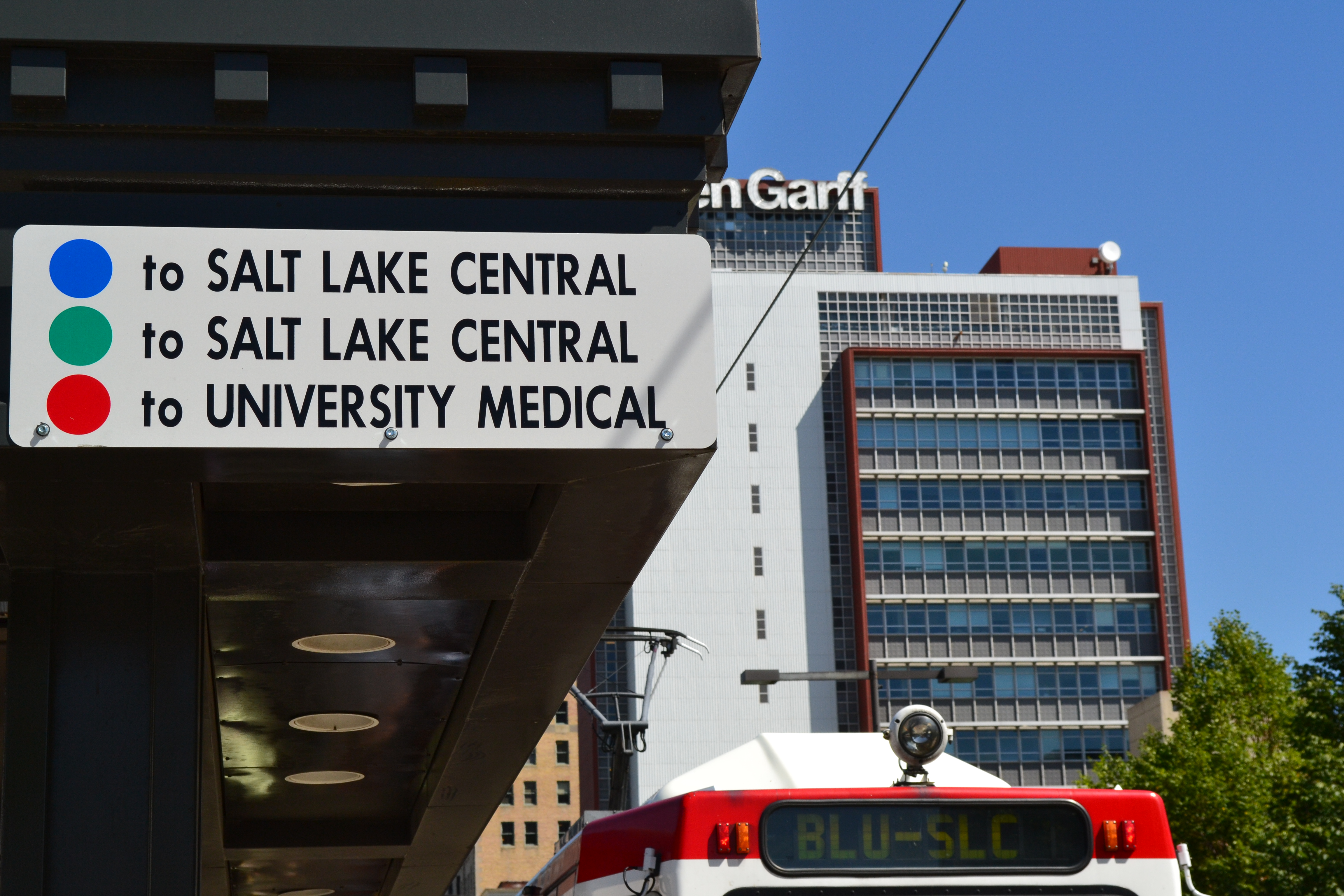 This is the new way that the UTA handles its light rail lines: color coding. The blue line runs from Central Station to Sandy, the red from the U of U to Daybreak, and the green from the Salt Lake City International Airport to West Valley Central (sign does not reflect the airport extension). This is great; before, the lines were simply known as "Sandy – Salt Lake" and "University." A Utah Transit Authority Trax light rail vehicle traveling north on the blue line in downtown Salt Lake City. The LRV is a Siemens SD-160.